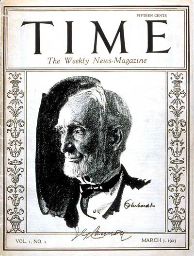 Time magazine, Volume 1 Issue 1, March 3, 1923 The cover shows the Speaker of the United States House of Representatives, Joseph Gurney Cannon. Article text: [1]